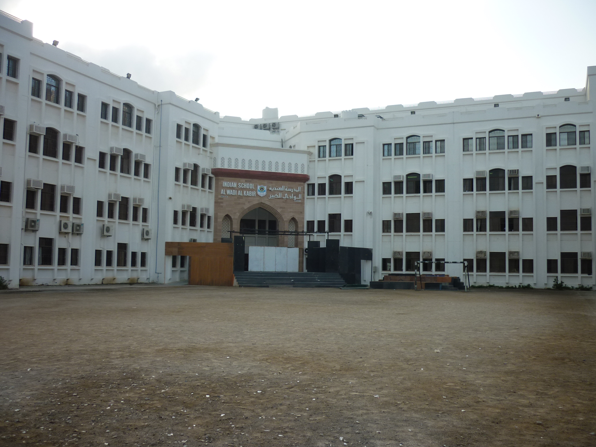 schools multi-purpose hall enterance and the basketball court